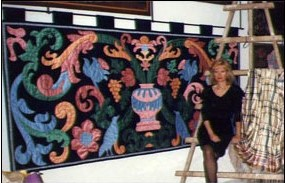 This is a photo of the artist in her atelier in front of one of her creations.